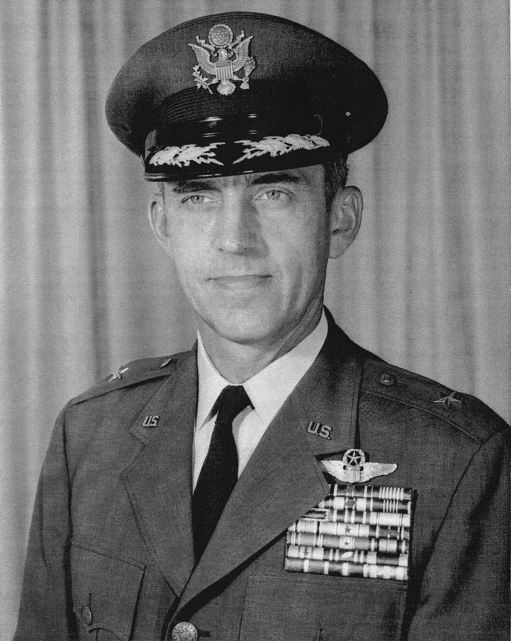 USAF Brigadier General Hugh Eldon Wild, 1967.